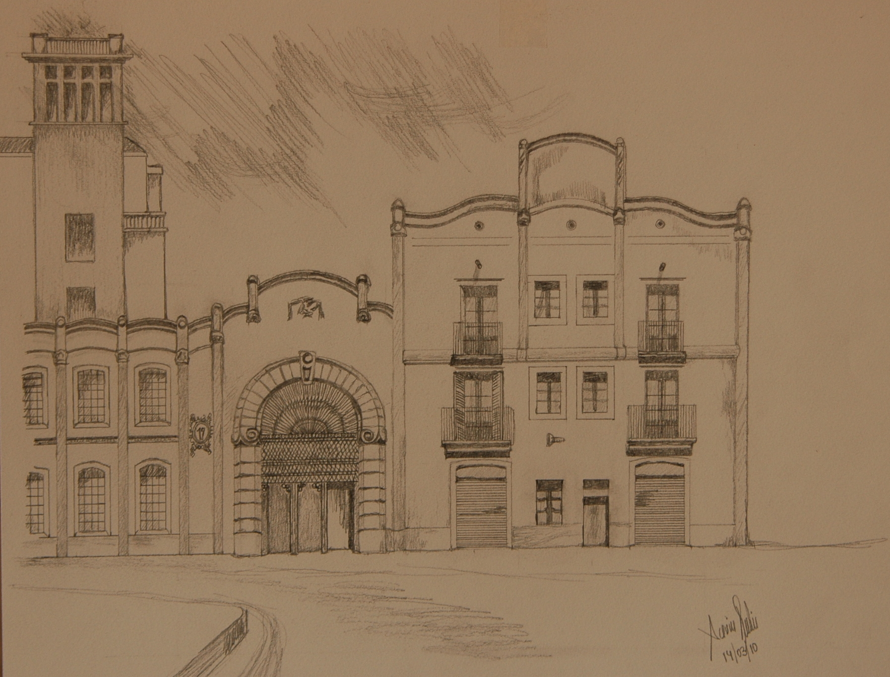 Can Felipa was an industrial factory located in the Poblenou neighbourhood. The factory produced bleaching, sizing, cloth patterns and tints for industrial usage. When the Vilà family took charge of the factory, it kept using its antique name, Can felipa, a name that is still used nowadays. Since 1955, Can Felipa was part of the catalan company CATEX, and the factory closed its doors in 1978.